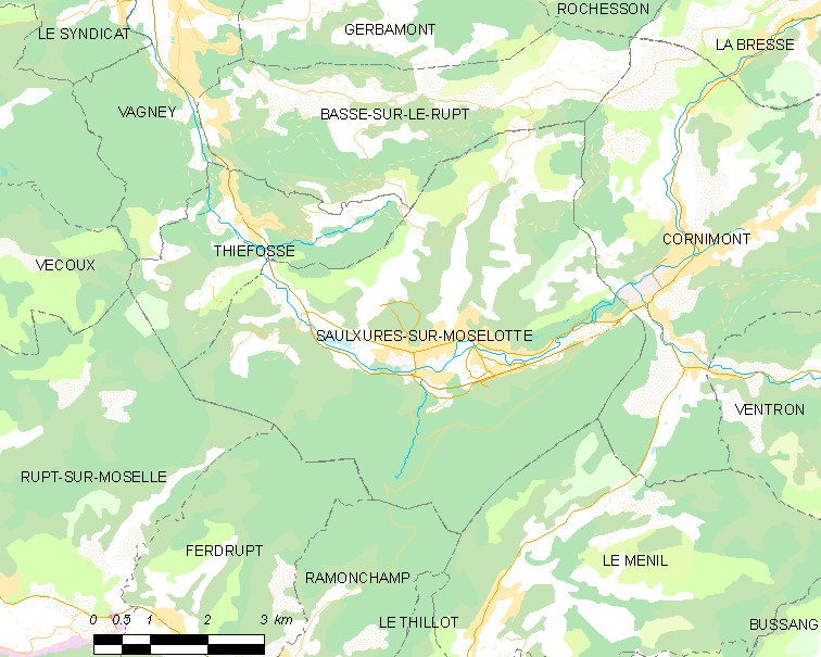 Map of French municipality Saulxures-sur-Moselotte